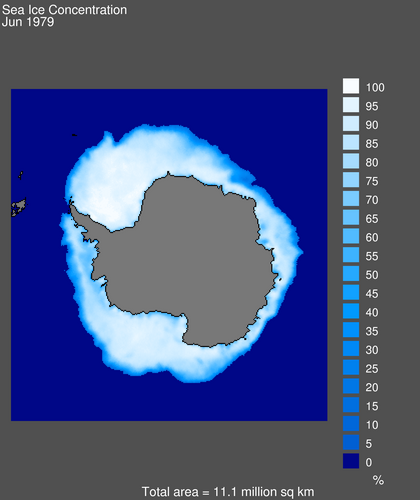 Sea Ice Concentration of Antarctic in June 1979